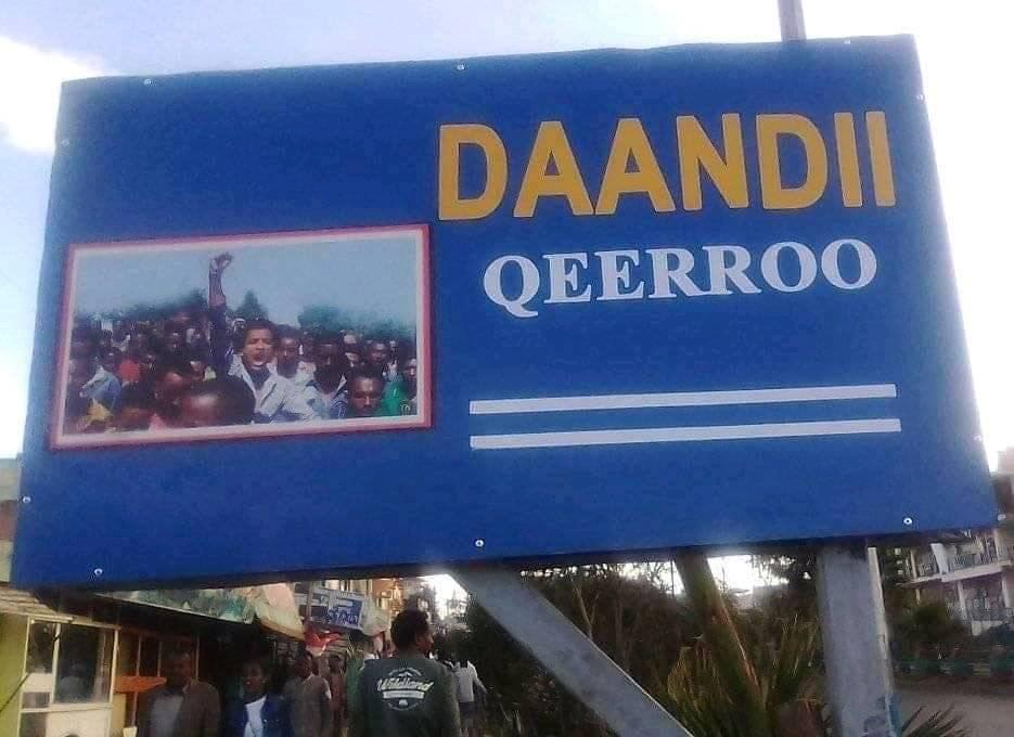 Qeerroo street named to remember Qeerroos struggle in Asalla. The Asalla governer renamed the street while celebrating 2019 Irreecha for the first time in Arsi.